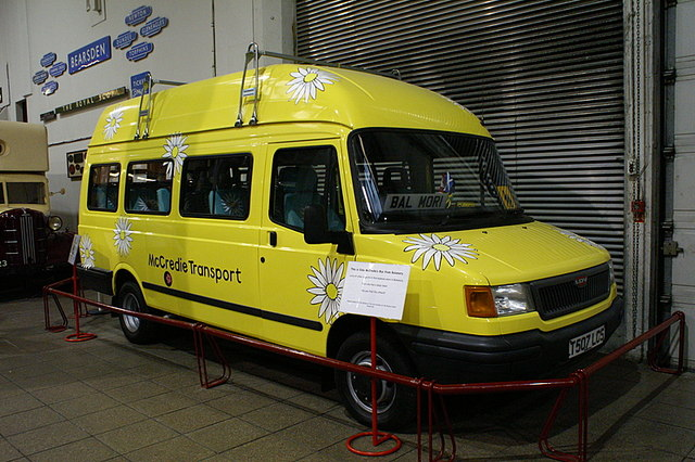 The Balamory McCredie Transport bus (BAL MOR1) (T504 LCS) at the Glasgow Museum of Transport.